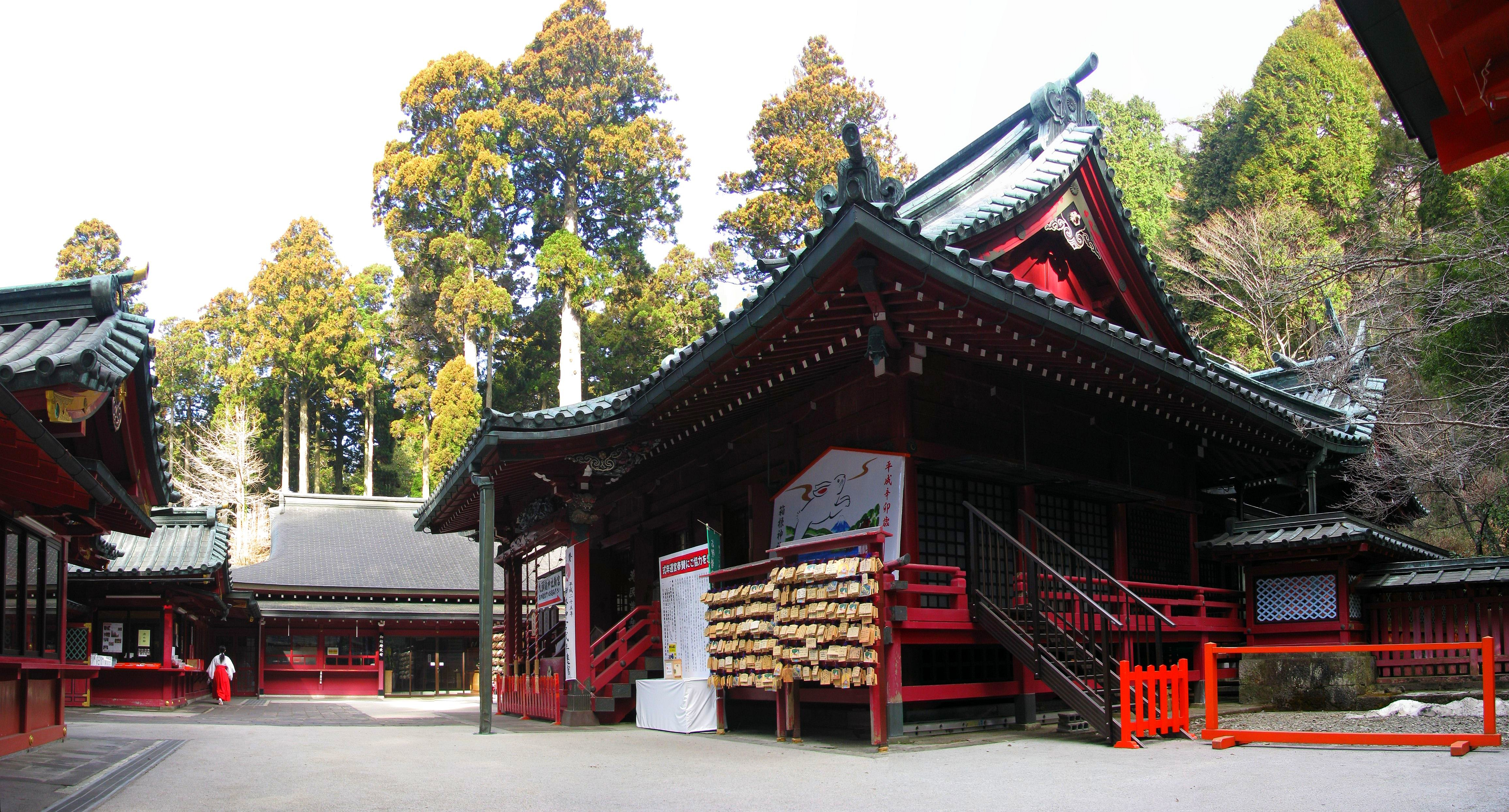 The Hakone-jinja. This place is Hakone, Ashigarashimo District, Kanagawa Prefecture, Japan.